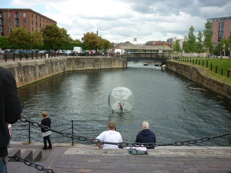 Walking on water, Duke's Dock, Liverpool